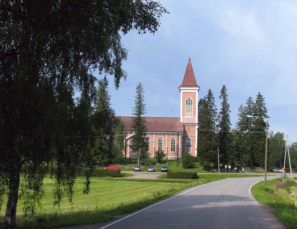 Toholampi Church, Toholampi Finland. The wooden church designed by architect C.A. Setterberg was completed in 1861